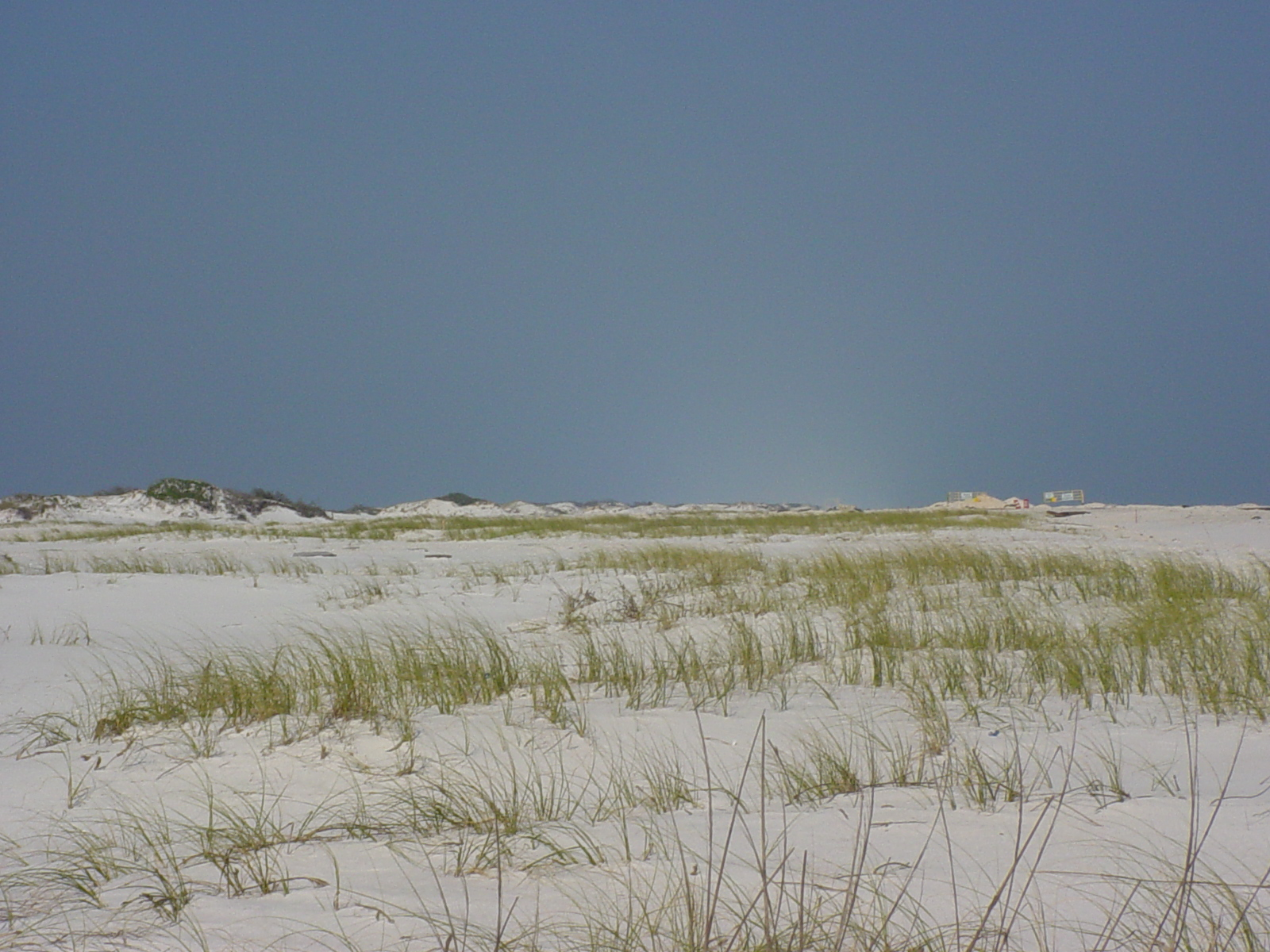 Dunes of Santa Rosa Island, Florida. Taken on May 8th, 2005, by me. I think this creative commons license is appropriate.